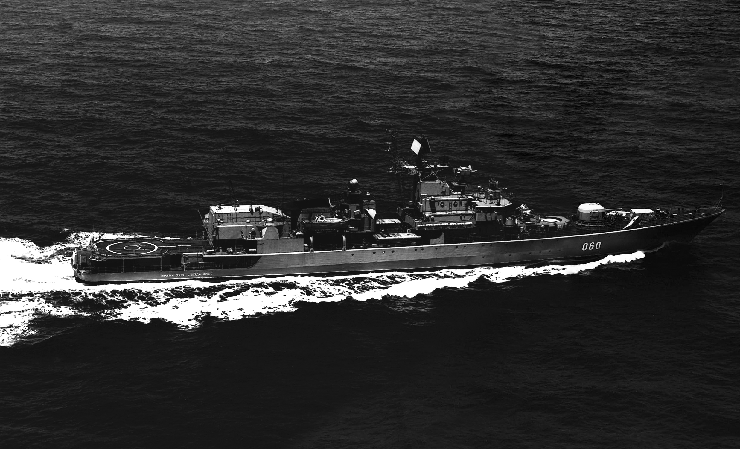 An aerial starboard view of the Soviet Krivak III class frigate IMENI XXVII SYEZDA KPSS underway. The ship is operated by the KGB Maritime Border Troops.